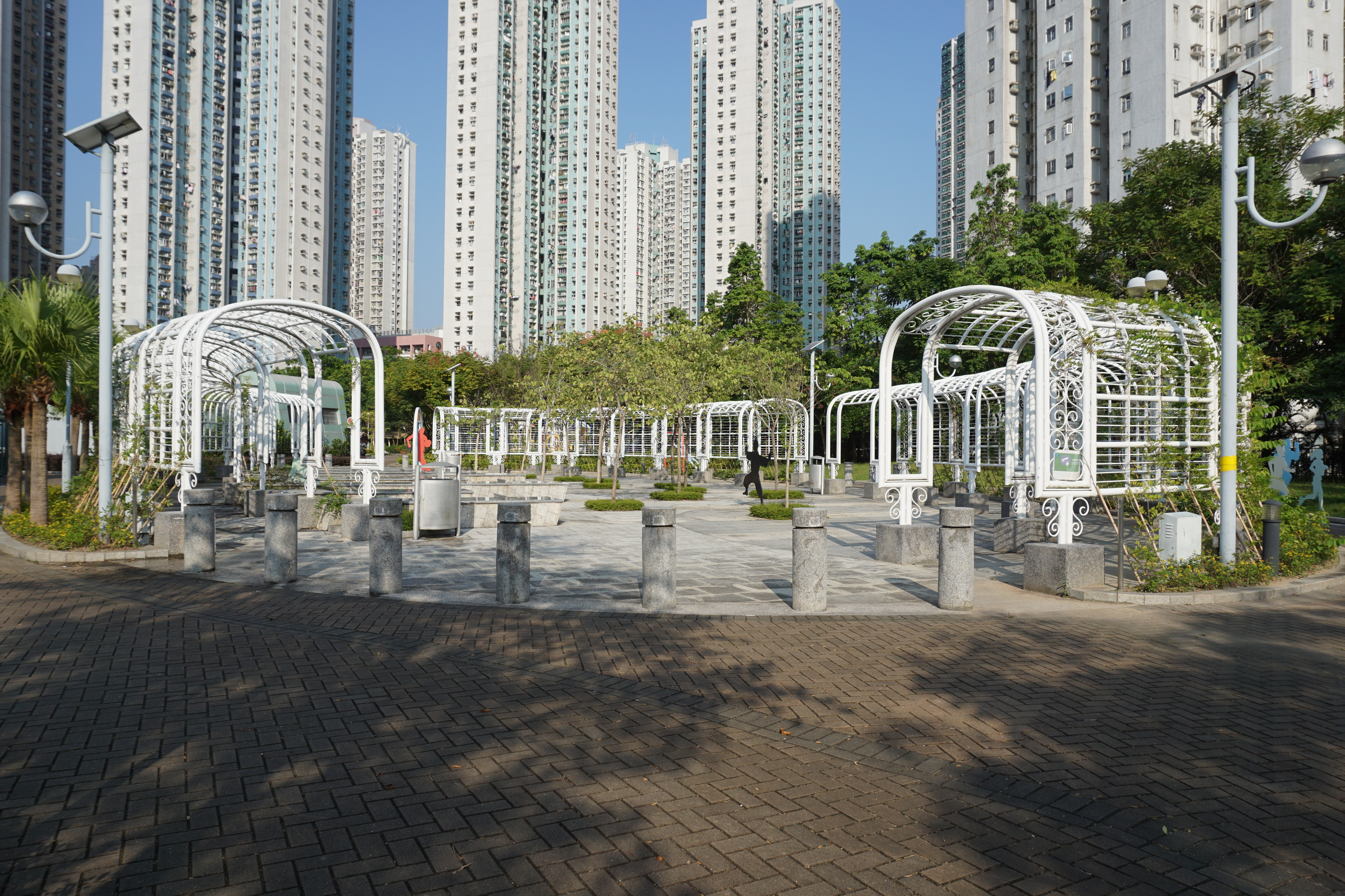 Sheung Ning Playground in Hang Hau, Hong Kong.